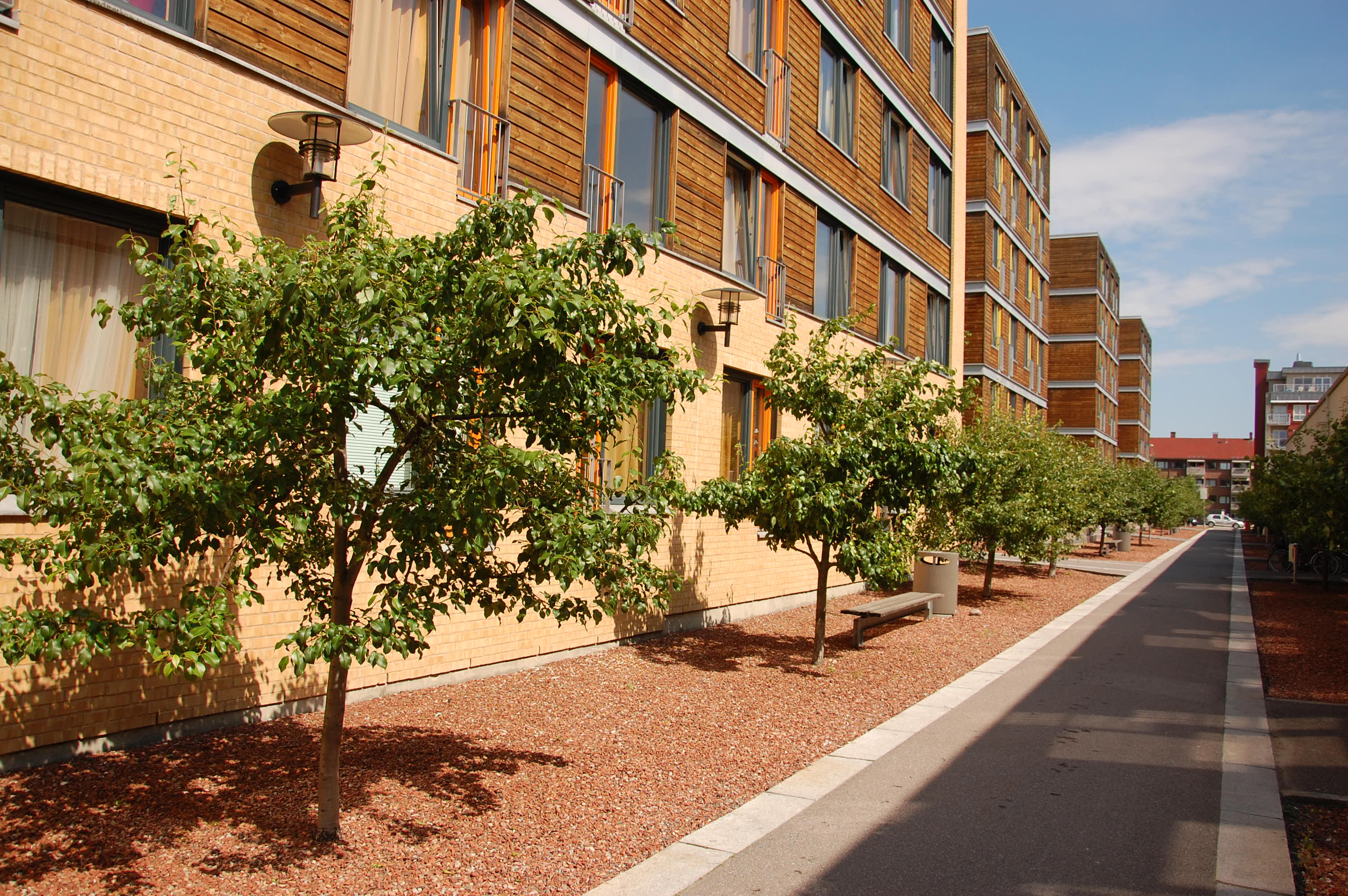 Bjølsen studenthousing at Sagene/Bjølsen in Oslo.